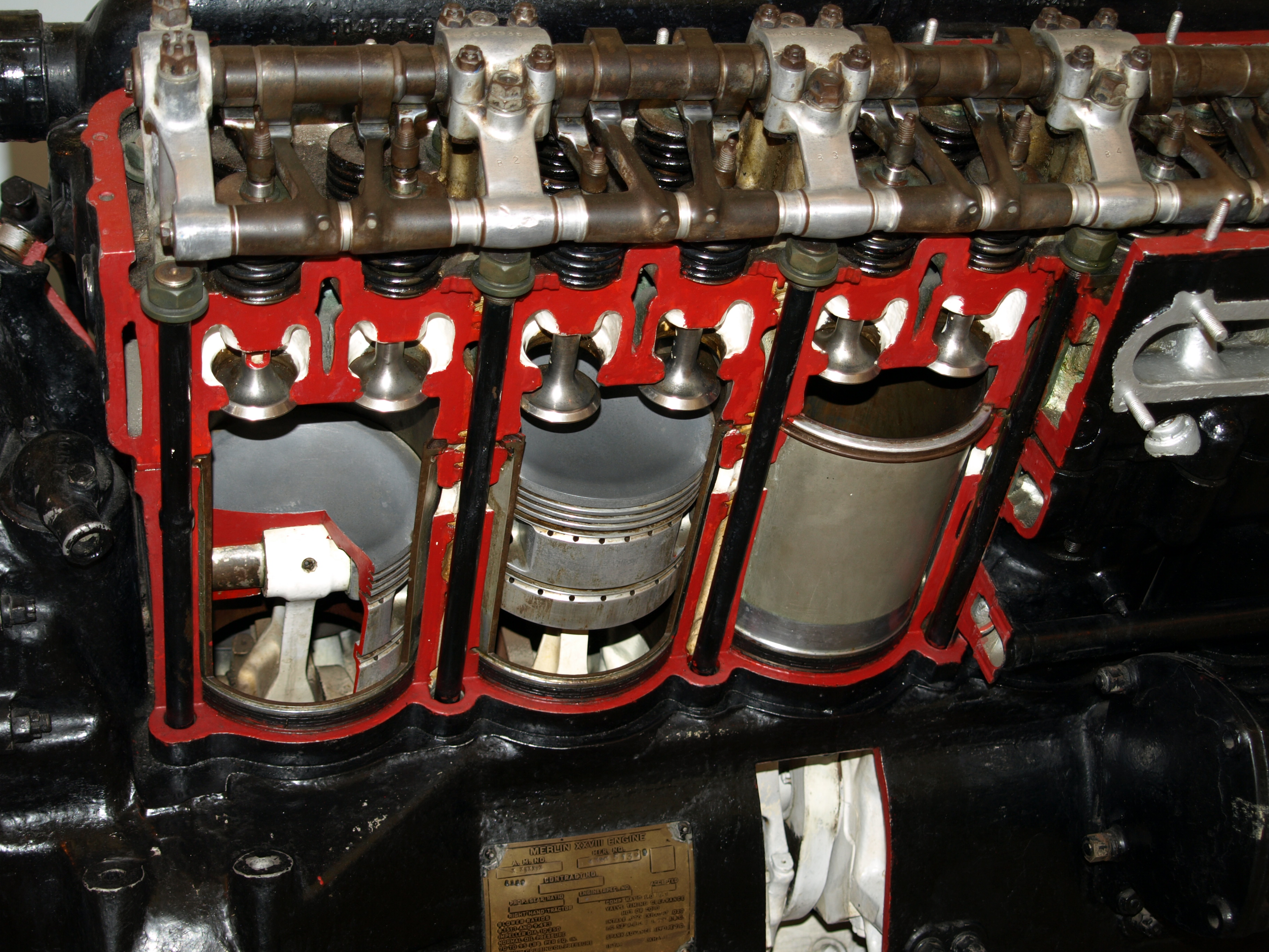 Sectioned view of the Rolls-Royce Merlin aero engine cylinders and valve gear. Taken at Royal Air Force Museum Cosford.